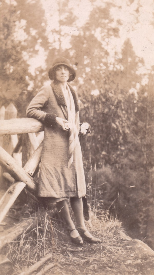 Photo image of A. V. Howell taken in the 1920s. As image is more than 50 years old NO copyright applies in Australia country of application.Photo image of A. V. Howell taken in the 1920s. As image is more than 50 years old NO copyright applies in Australia country of application.